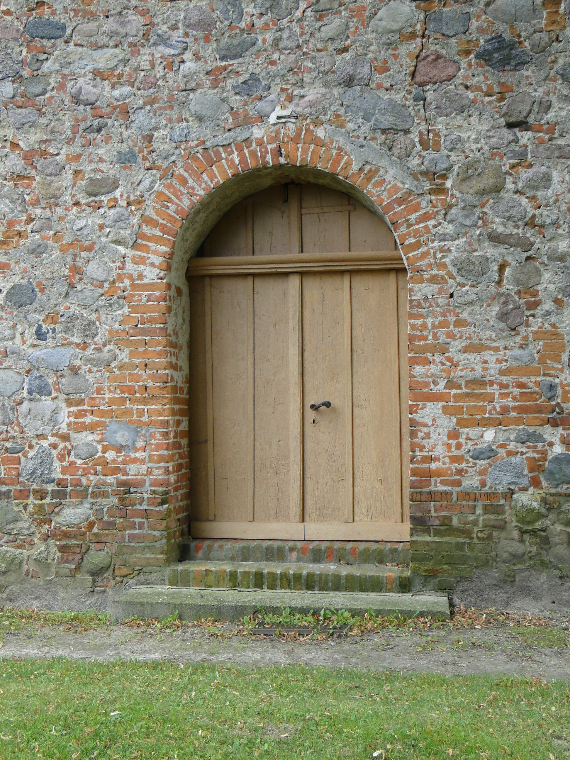 Church in Gliencke, district Mecklenburg-Strelitz, Mecklenburg-Vorpommern, Germany